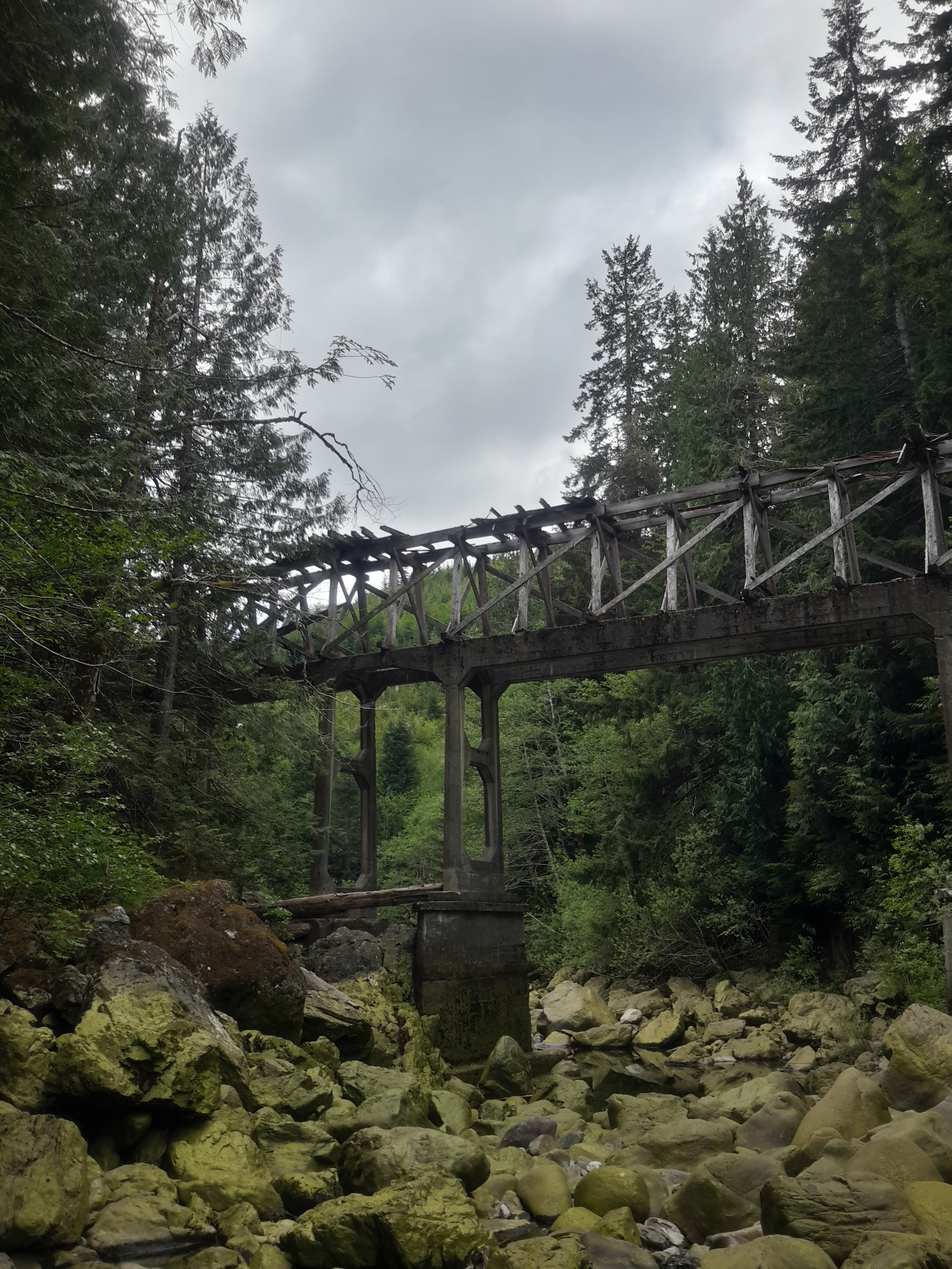 Disused and abandoned trestle along the former BC Electric Railway/BC Hydro service line between Jordan River and the Diversion Reservoir Dam on Vancouver Island, British Columbia.